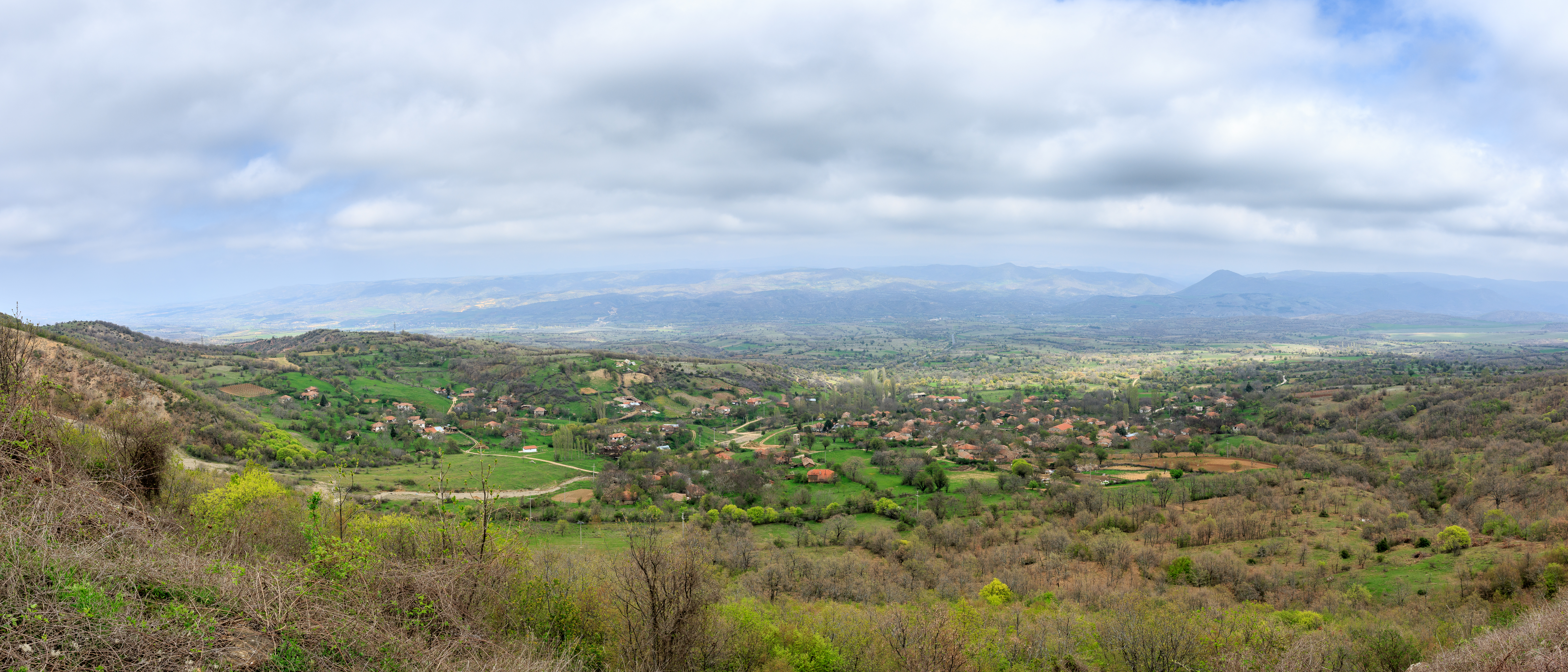 Panoramic view of the village of Leskovica